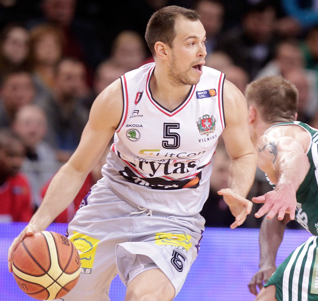 Lithuanian basketball player Steponas Babrauskas